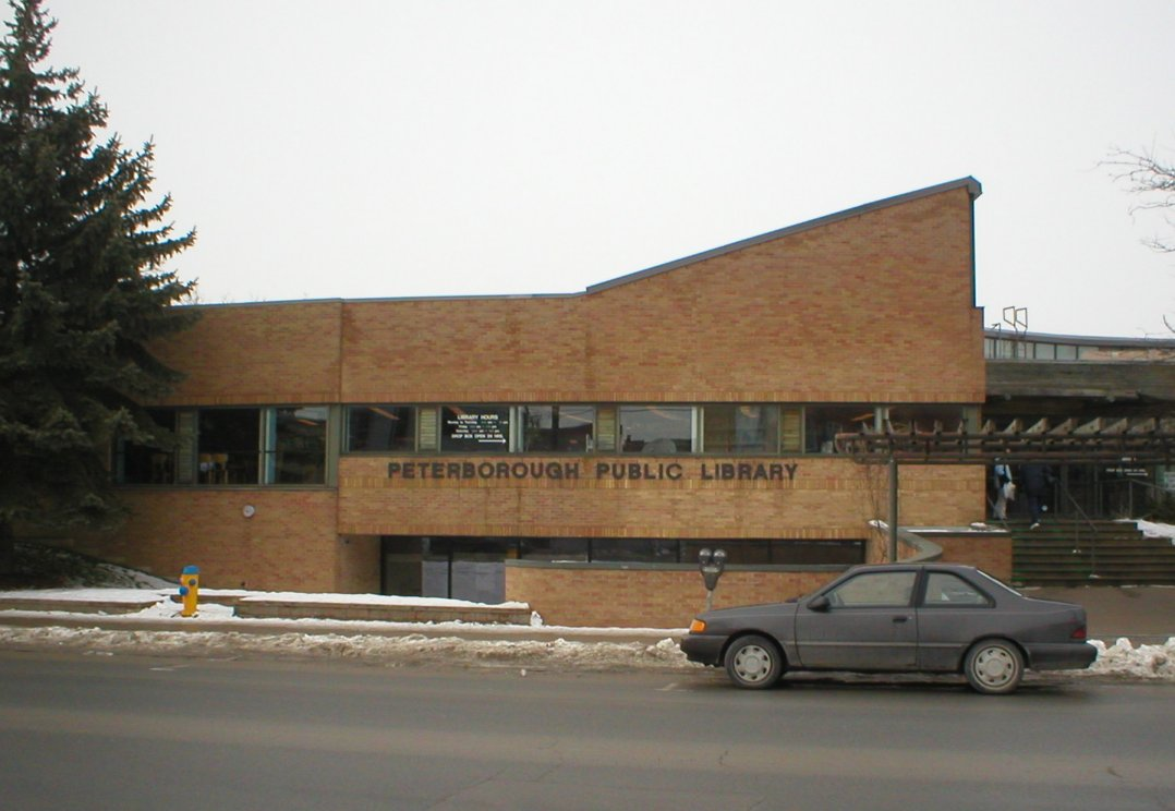 The Peterborough Public Library in winter, on the west side of Aylmer Street in Peterborough, Ontario.